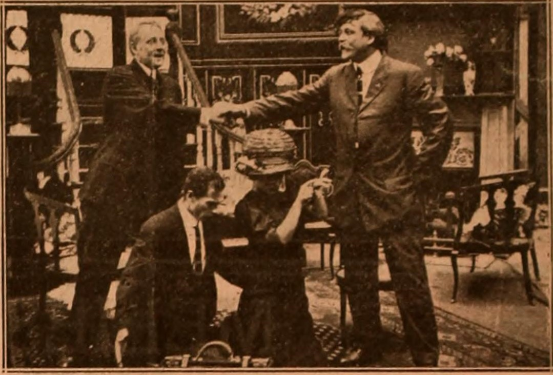 An Assisted Elopement by the Thanhouser Company. The film still shows four actors, including Frank H. Crane, Violet Heming and Alphonse Ethier.